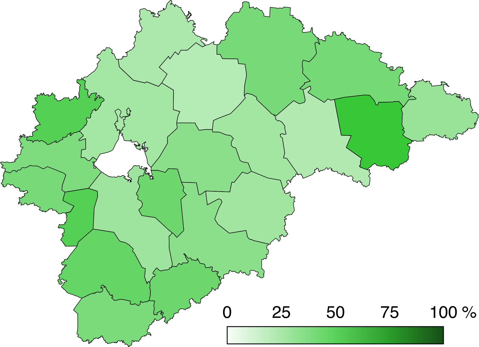 Turnout in the 2017 election of the Governor of Novgorod Oblast.